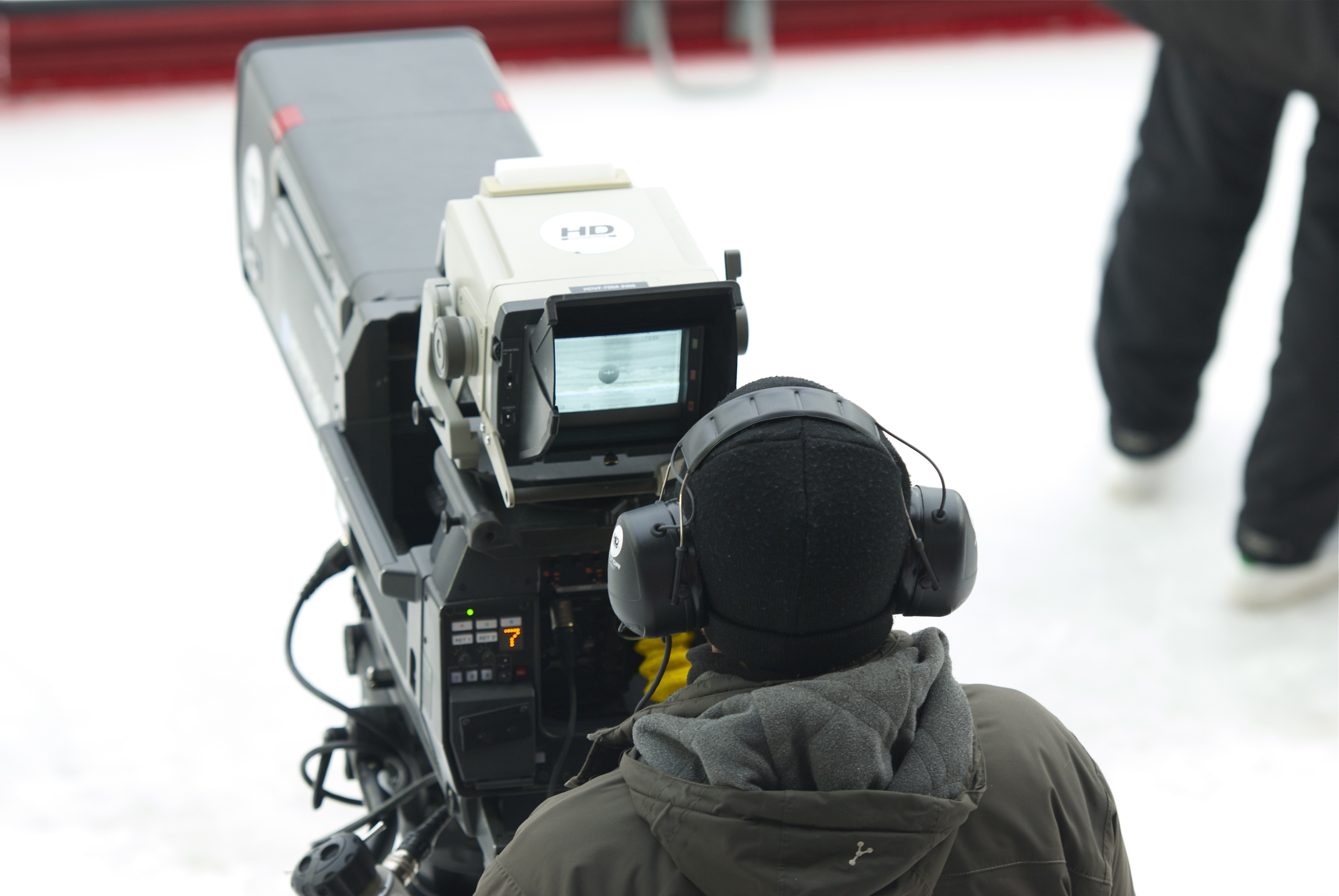 Sony digital television camera with a DIGI SUPER 86II xs lens from Canon. The camera was used during a bandy match between Hammarby and GAIS in Elitserien, Zinkendamms IP (Stockholm) 2012-02-11.